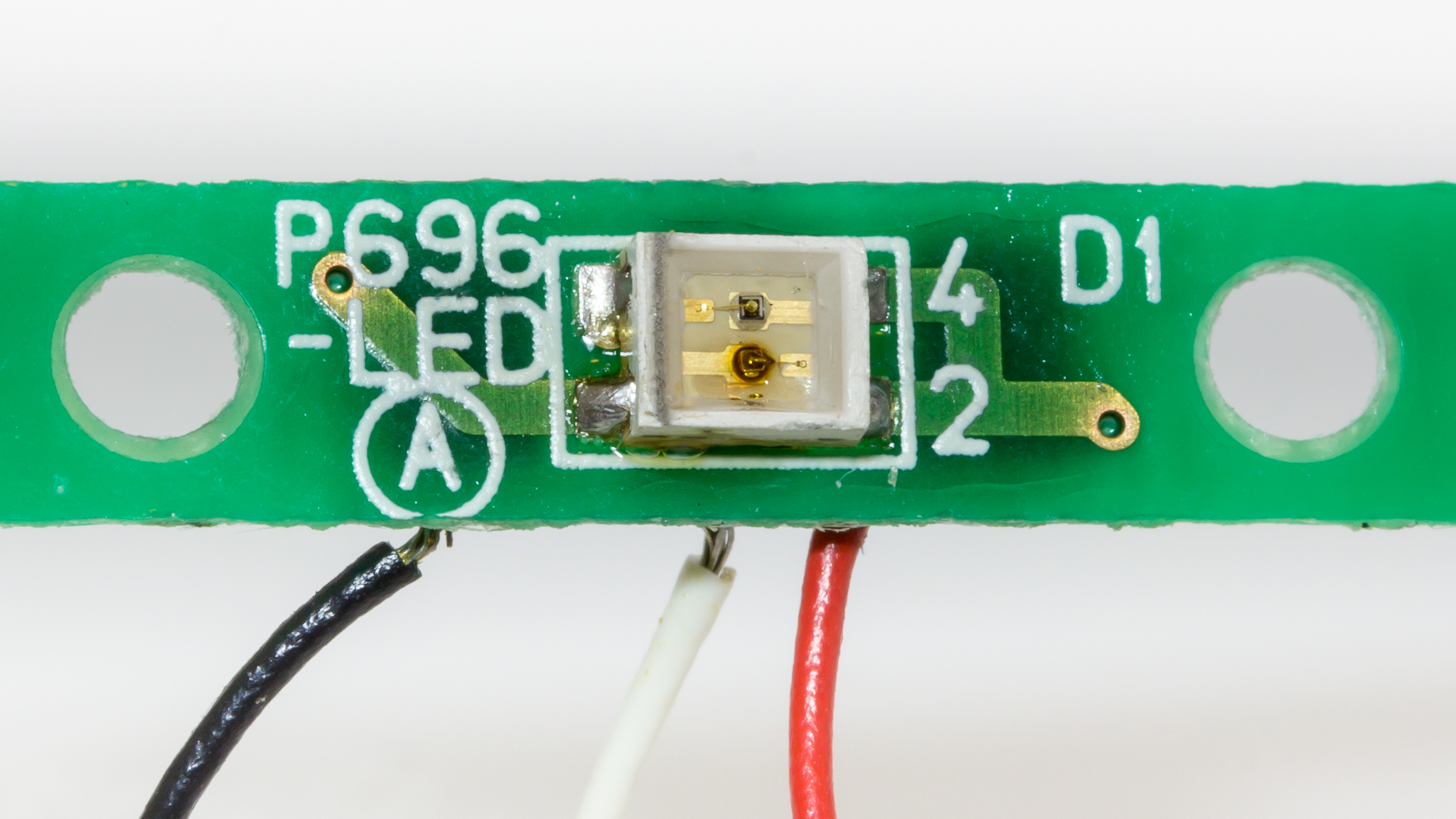 Duo SMD LED Module on a printed circuit board. Two LEDs are integrated in one SMD which can be controlled separately. Status: off